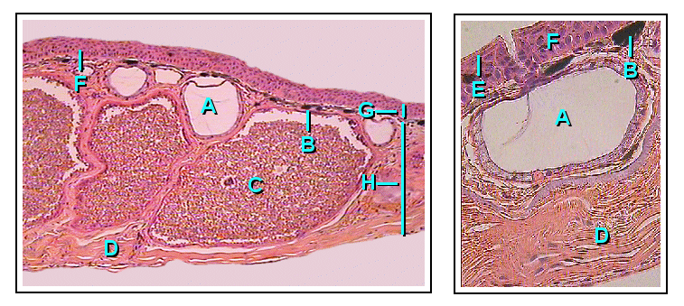 Section through frog skin. A: Mucus gland, B: Chromophore, C: Granular poison gland, D: Connective tissue, E: Stratum corneum, F: Transition zone, G: Epidermis, and H: Dermis.